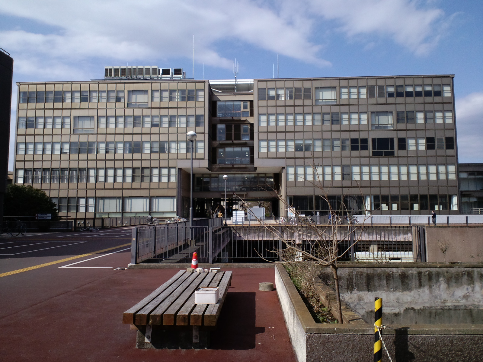 5C building in University of Tsukuba, Amakubo 2-chōme, Tsukuba city, Ibaraki prefecture, Japan.